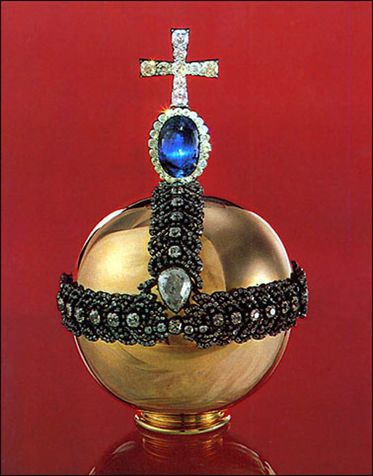 Picture of the Russian Regalia